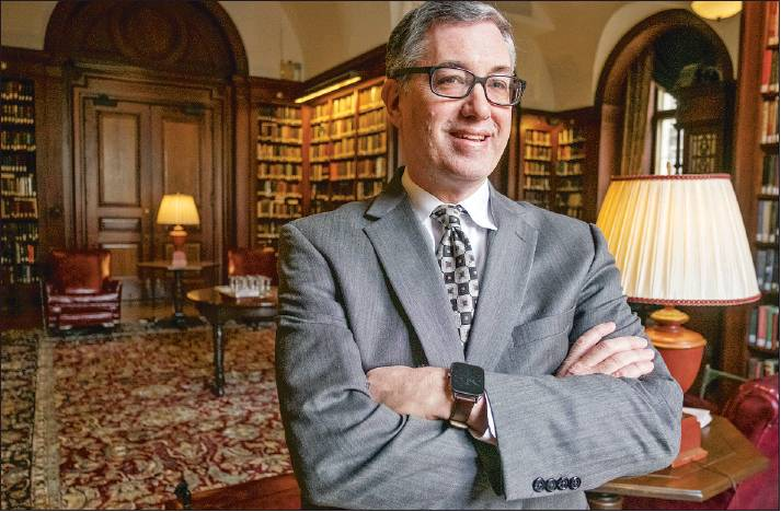 Marc Kramer pic from Philadelphia Inquirer article